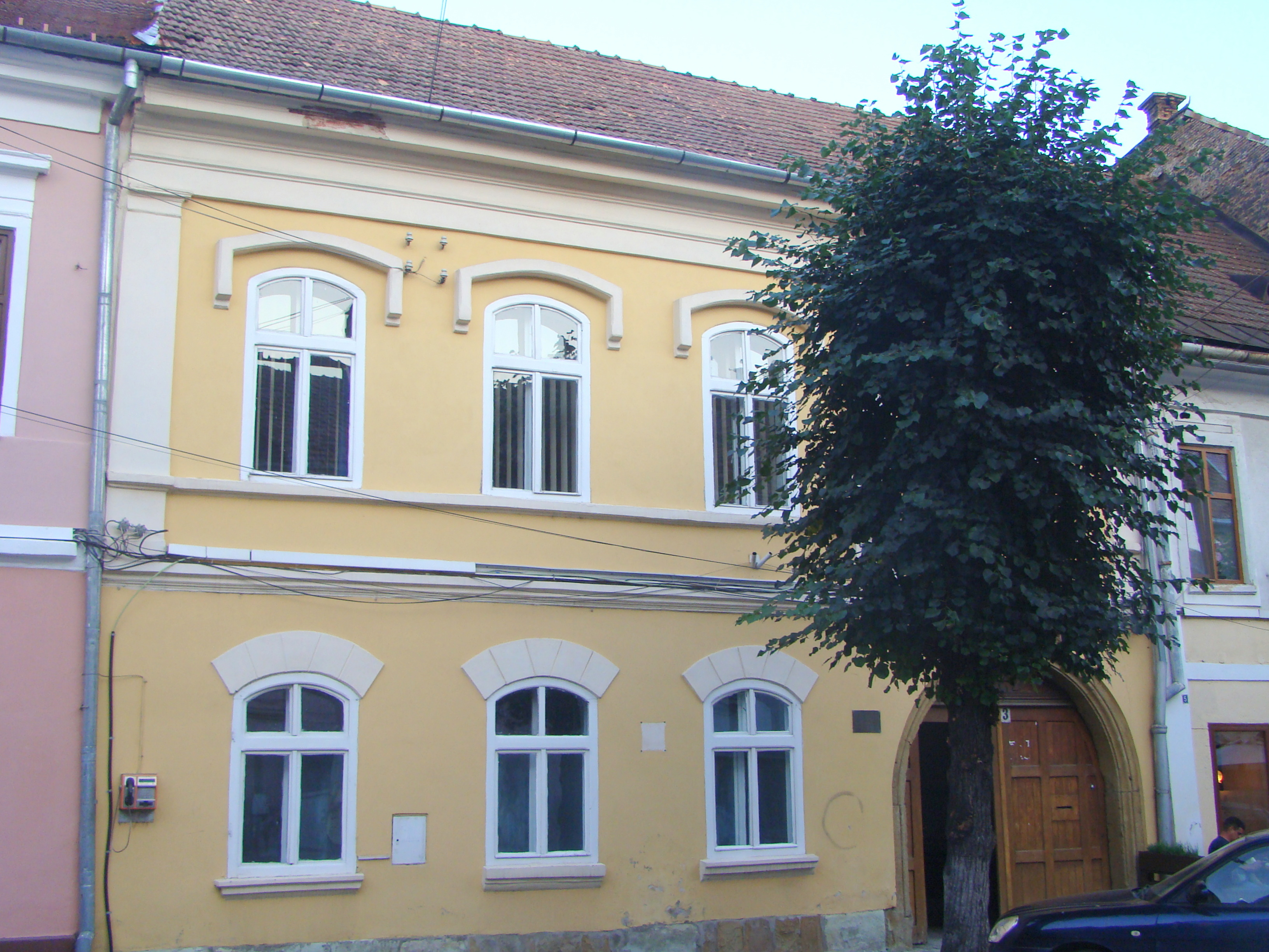 House, historic monument, in Bistrița, Nicolae Titulescu street 3